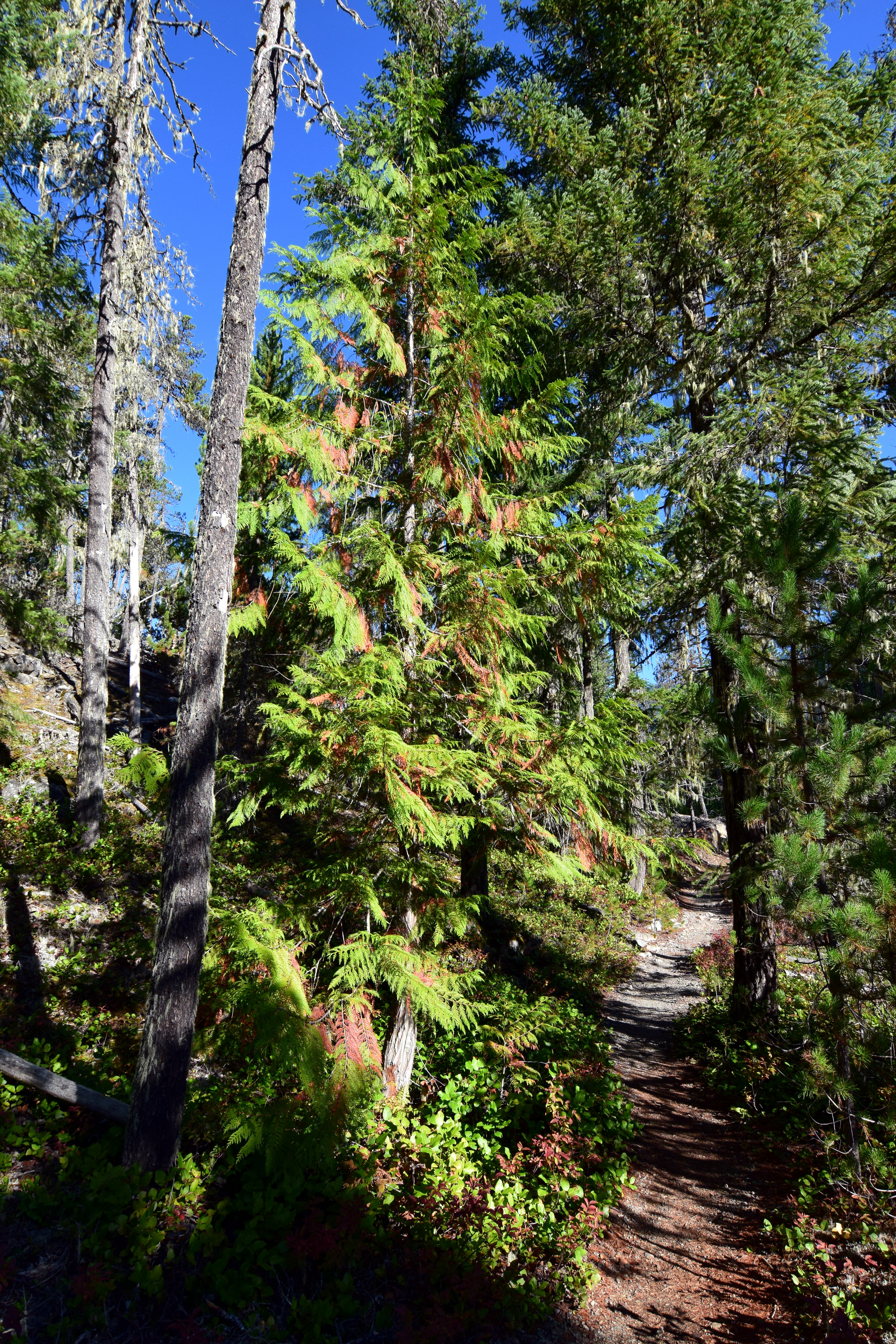 Nootka Cypress Cupressus nootkatensis, image taken in North Cascades National Park.